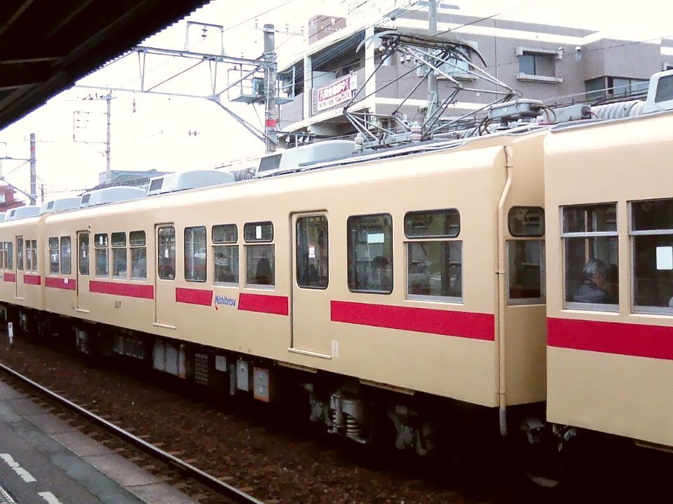 Company:Nishi Nippon Railroad Type:EMU Type300 Car number:327 Location:Nishitetsu Miyajidake Line Wajiro Station, Higashi-ku, Fukuoka, Fukuoka, Japan.